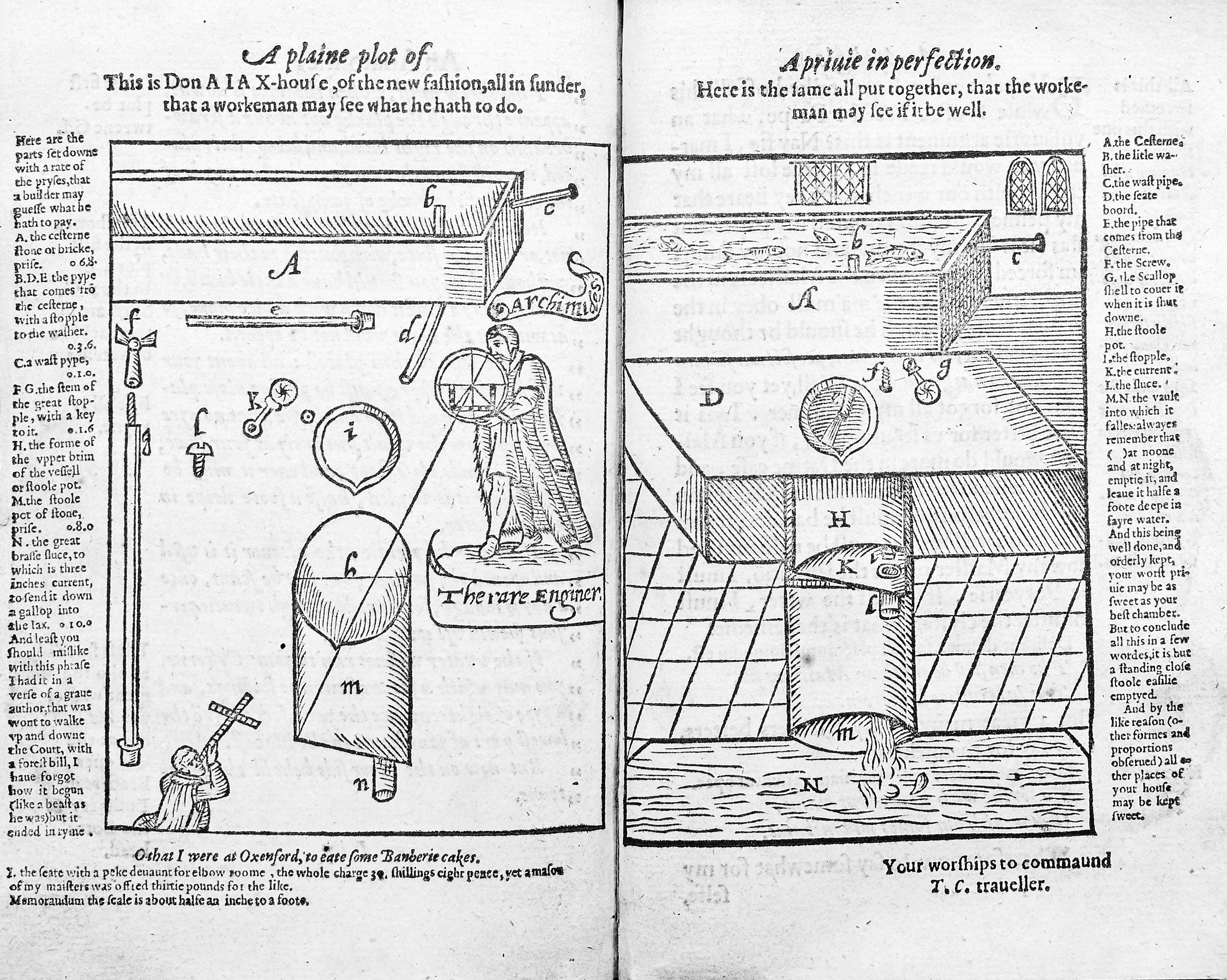 Diagram of the water-closet Wellcome Images Keywords: Sir John Harington